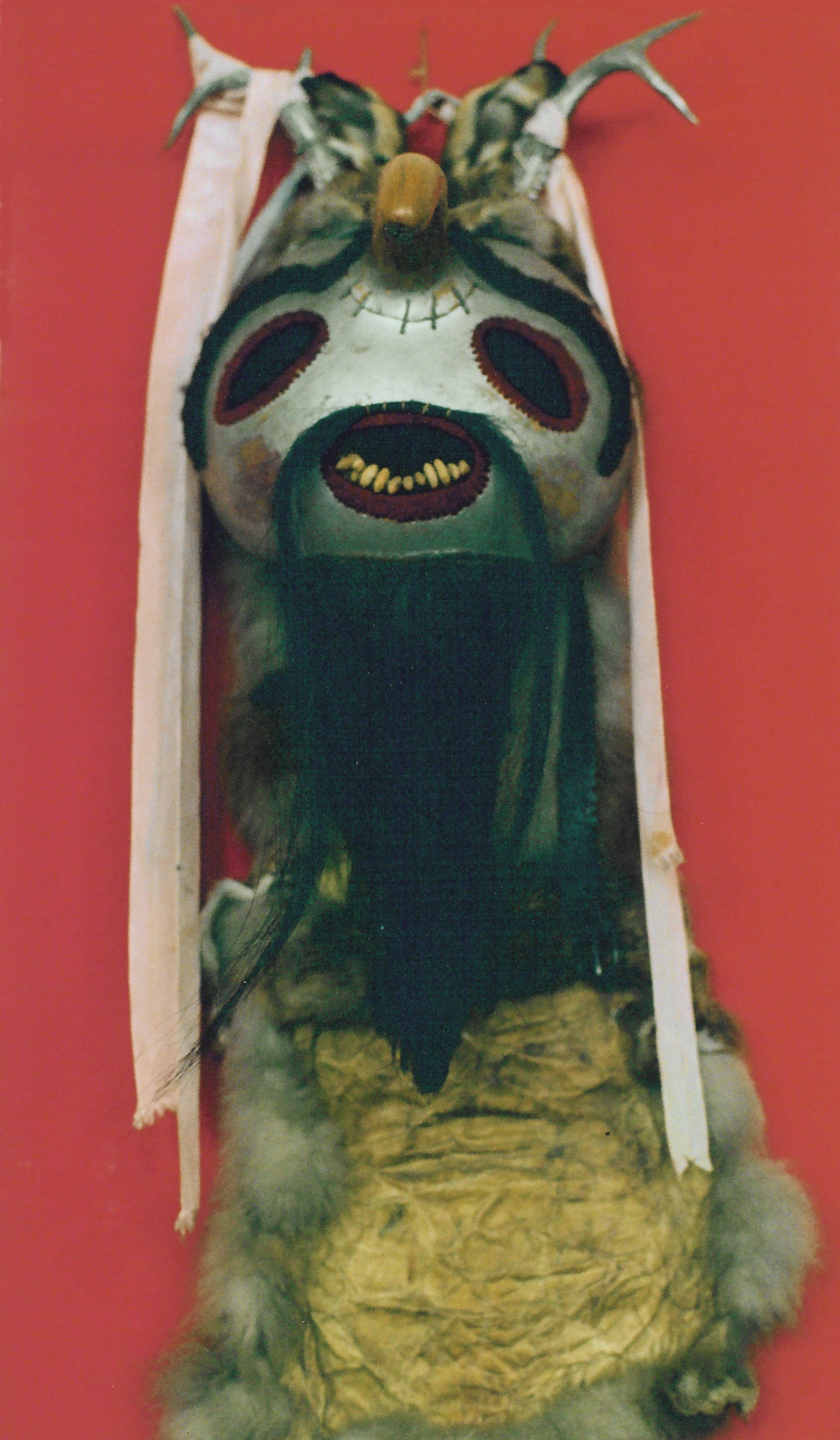 Mask, used for Romanian peasant dances, and festivities associated with the period between Christmas and Epiphany. Museum of the Romanian Peasant, Bucharest, Romania. (Muzeul Ţaranului Român, Bucureşti, România.) See The Masks Customs on the site of that museum for some discussion of these traditions.